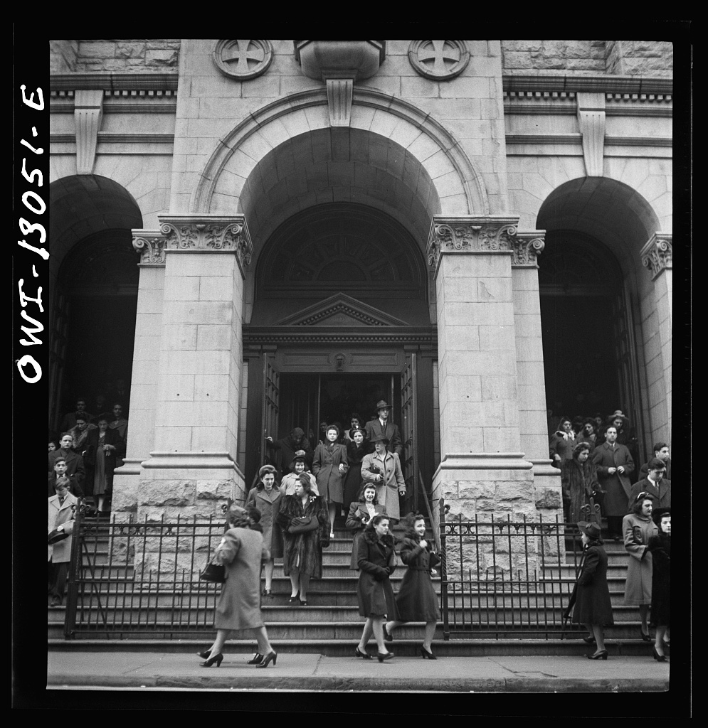 New York, New York. Italian-Americans coming out of Saint Dominick's church on Sullivan Street on New Year's Day